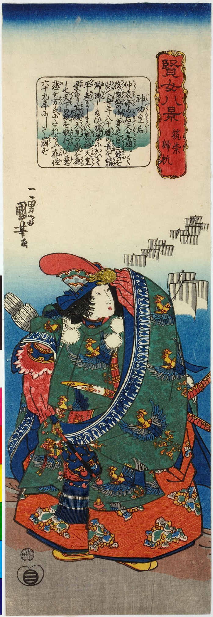 kihan 帰帆 (Returning boats from Tsukushi) / Kenjo hakkei 賢女八景 (Virtuous Women for the Eight Views). Empress Jingū.